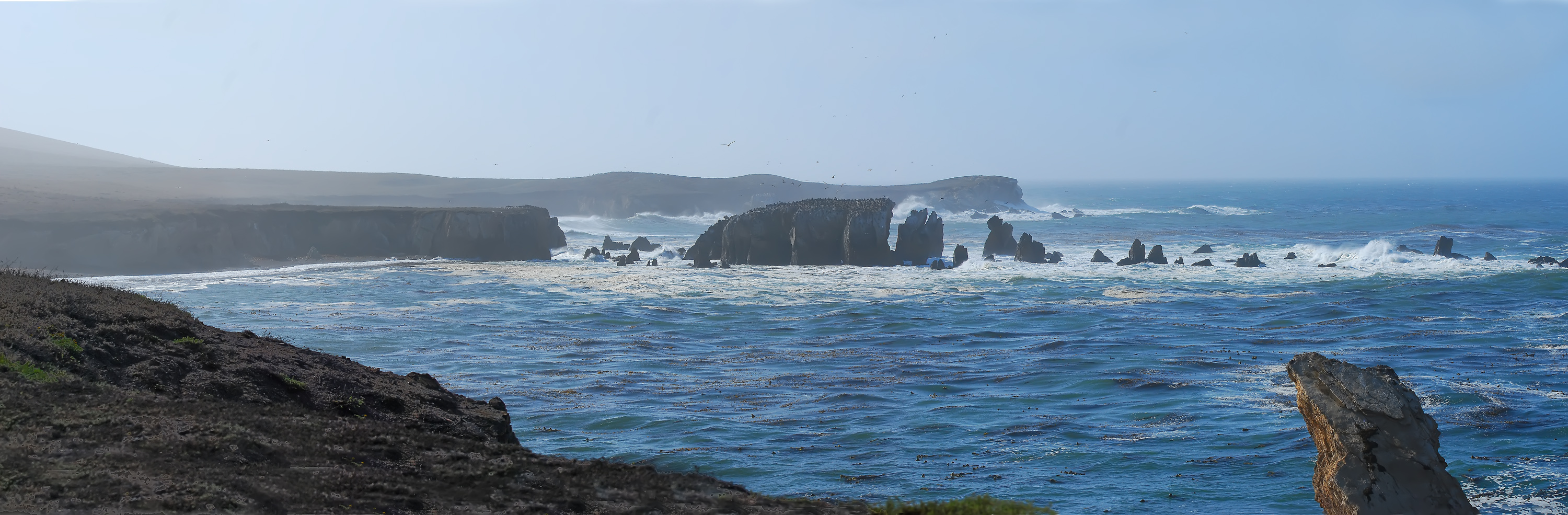 Point Buchon Trail panorama — view from the public access trail on PG&E land, at the southern end of Montana de Oro State Park, in San Luis Obispo County, California.